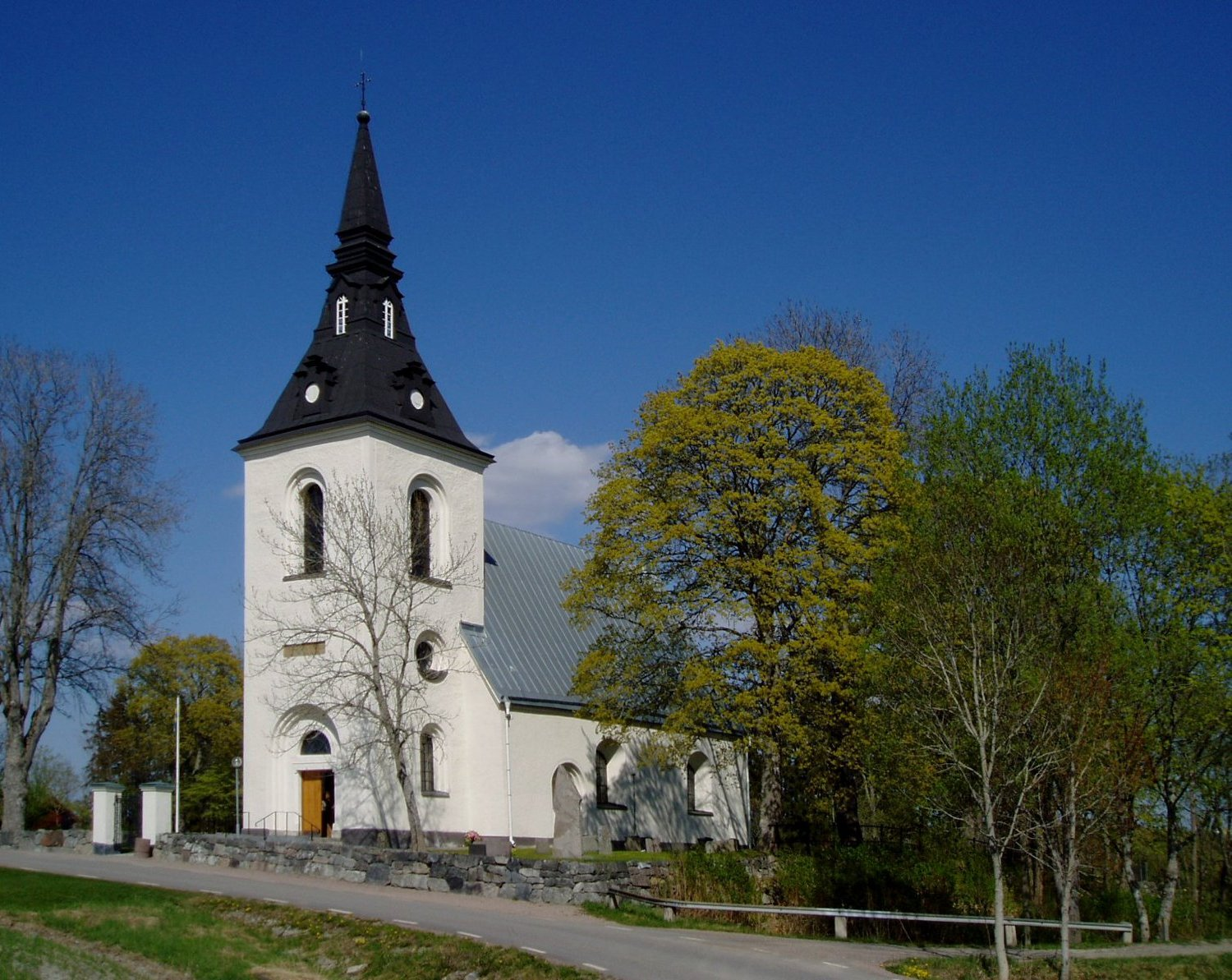 church, Västerås municipality, Sweden